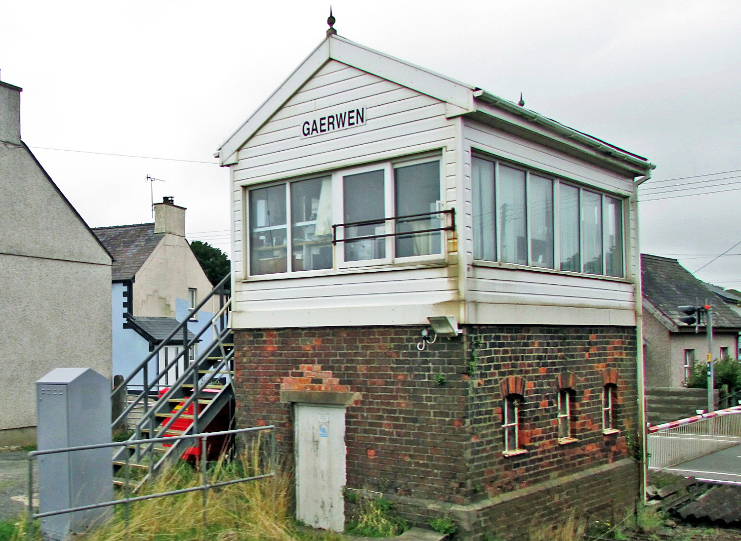 Gaerwen signal box from the west in August 2016